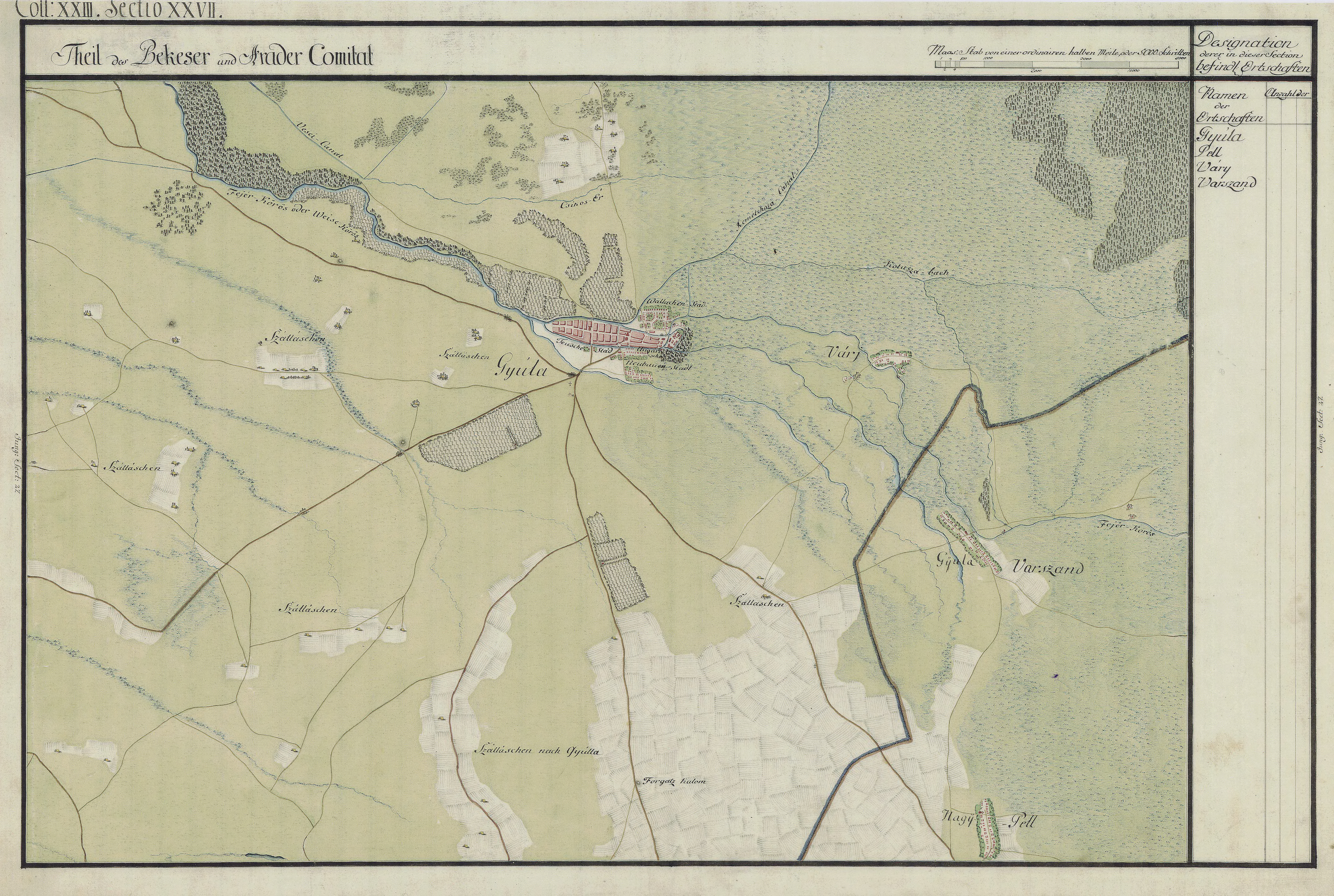 Arad County, 1782-85. Josephinische Landesaufnahme pg.23-27